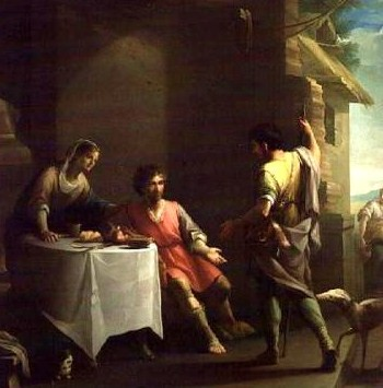 Easu sells his birthright to Jacob